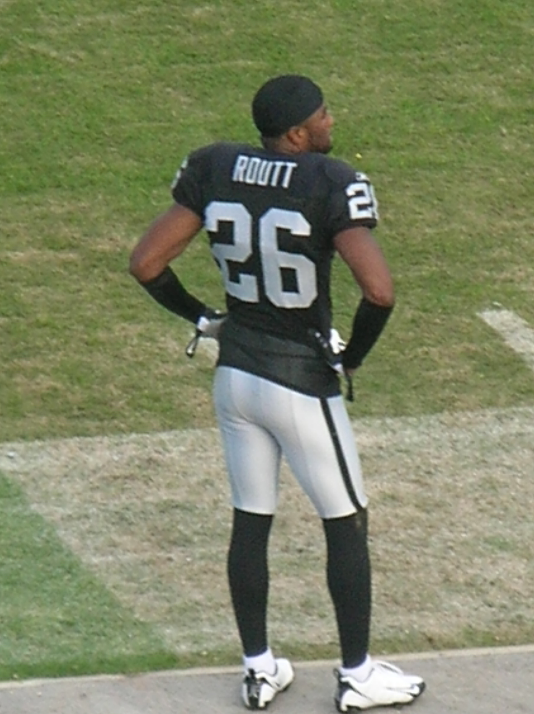 Oakland Raiders cornerback Stanford Routt at a home game against the Atlanta Falcons. The Falcons won 24-0.